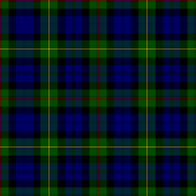 MacEwen tartan. In the sixteenth century the MacEwens were a broken clan, which was absorbed by the Campbells, this tartan is made to resemble the Campbell of Loudon tartan. Modern thread count: MacEwen Y/R4 Bl2 G24 Bk24 B24 Bk2 B4 (source: Stewart, D. C. The Setts of the Scottish Tartans. (R4 Bk2 G24 Bk24 B24 Bk2 B4 Bk2 B24 Bk24 G24 Bk2 Y4).